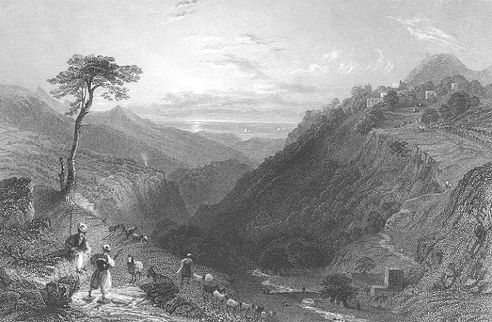 Kfarsghab viewed from Mar Sarkis Monastery area. Engraving of an original by WH Bartlett in year 1838